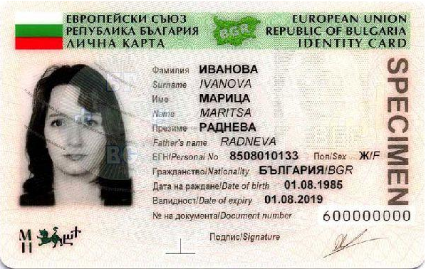 Front of the Bulgarian identity card (first issued on 29 March 2010).